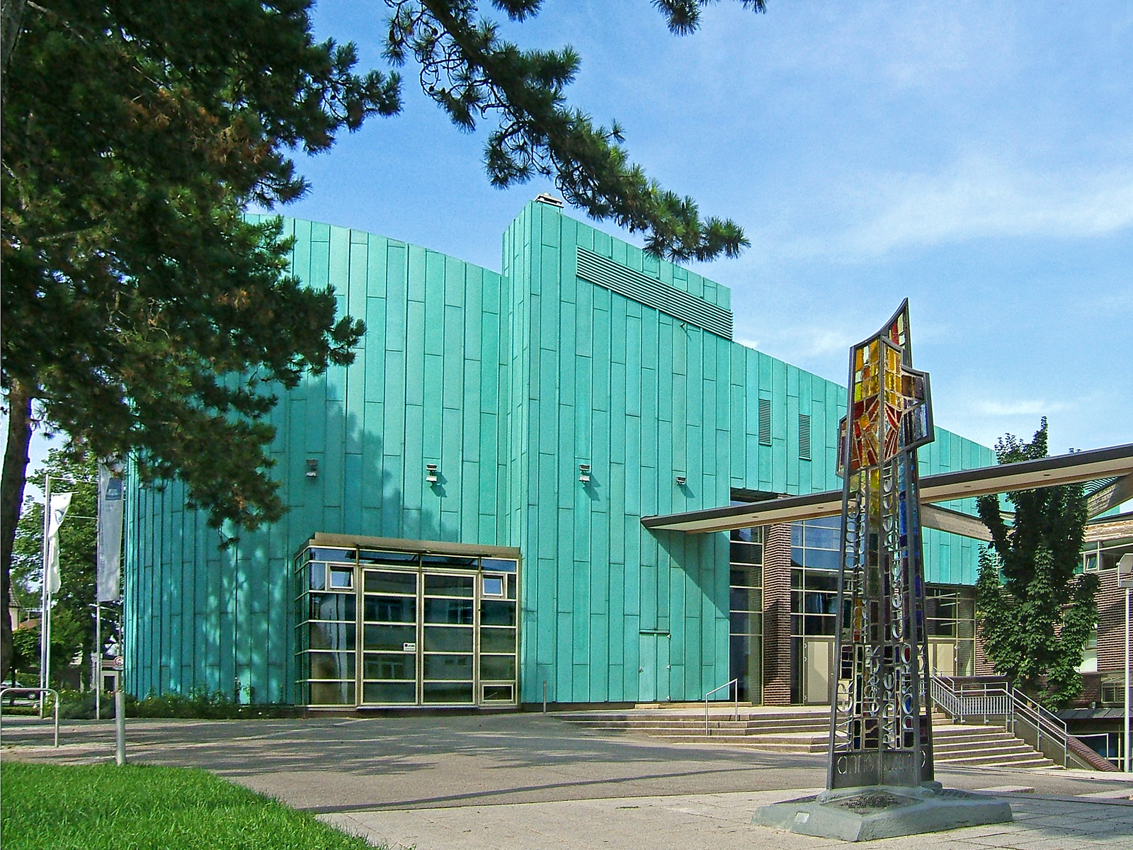 sculpture in Schorndorf, Germany